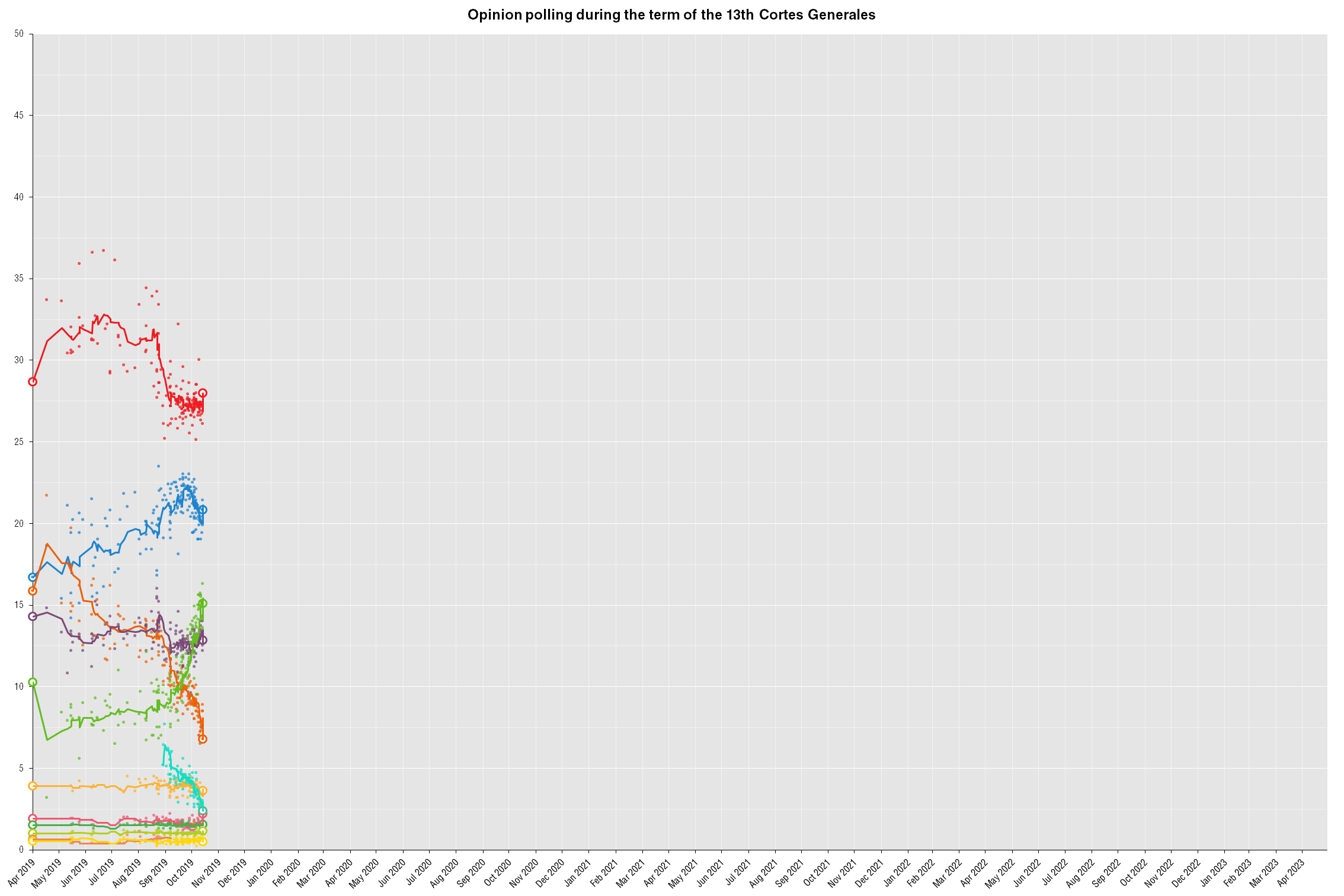 10-point average trend line of poll results from 28 April to 10 November 2019, with each line corresponding to a political party. PSOE PP Cs Unidas Podemos Vox ERC JxCat PNV EH Bildu Compromís CC Más País